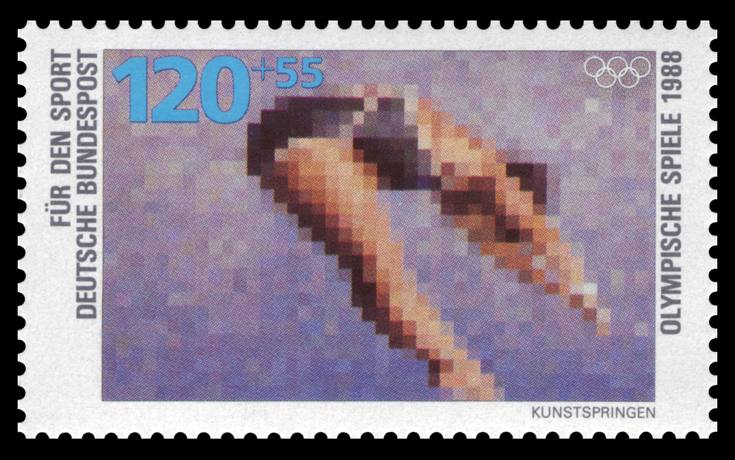 additional fees for German sports, UEFA European Football Championship and Olympic summer games in Seoul